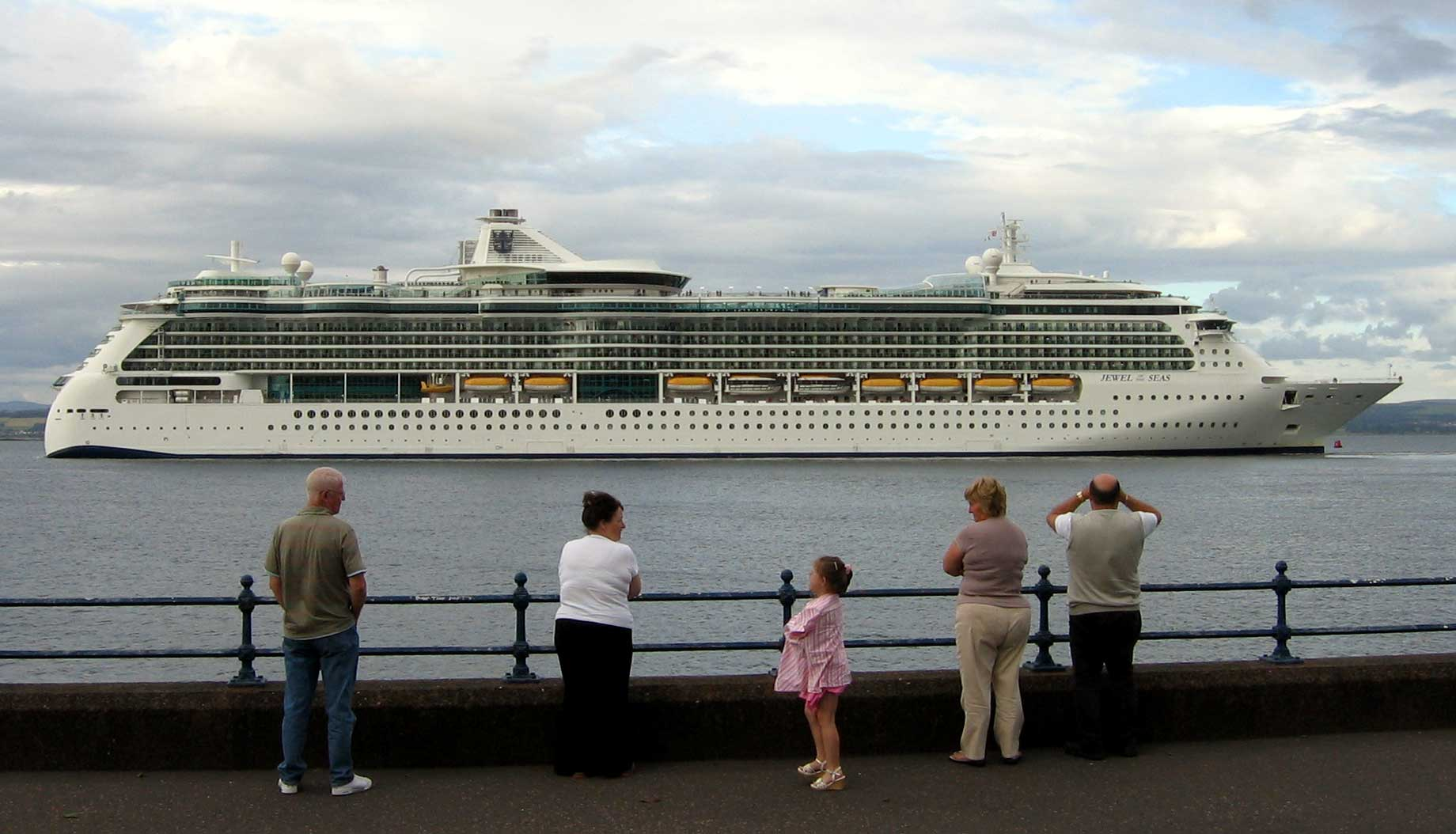 The Cruise ship Jewel of the Seas leaving Clydeport Ocean Terminal, Greenock, Scotland on the Firth of Clyde, seen from the Esplanade at 6.20pm BST (5.20 UTC).